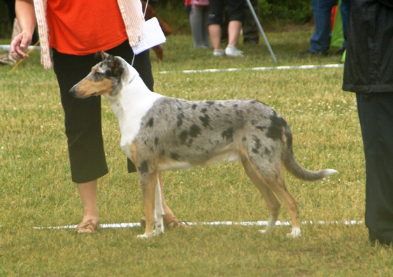 Blue merle Smooth Collie.